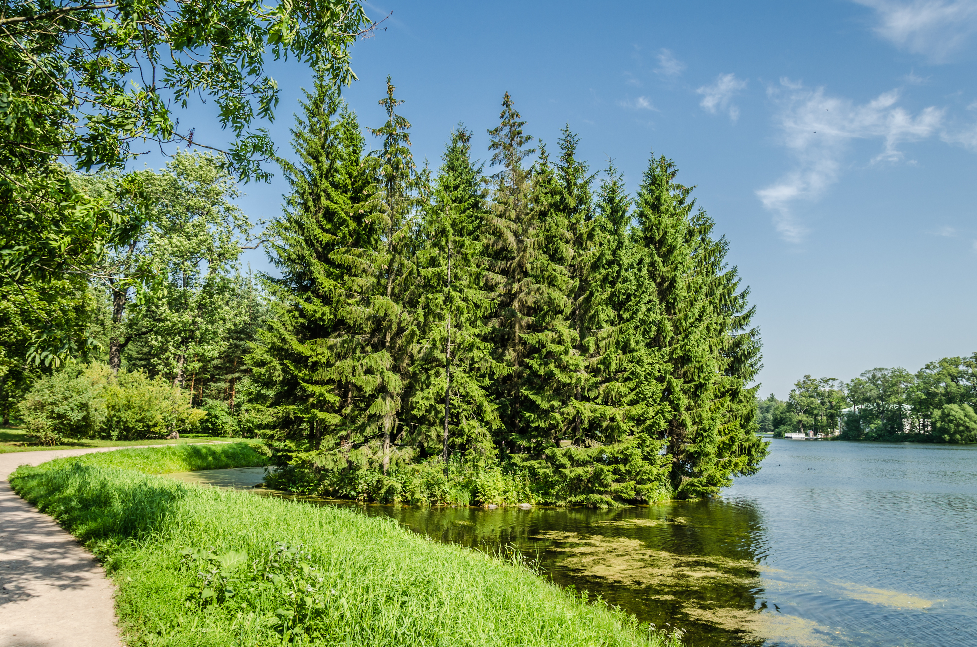 Empty Island in Catherine park of Tsarskoe Selo, Saint Petersburg